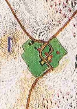 Manor Silberberg nearby the Scharmützelsee, today a part of Bad Saarow in the District Oder-Spree, Brandenburg, Germany. Detail from the Urmesstischblatt (prototype planetable sheet at 1:25,000) Sheet 3750 Bad Saarow-Pieskow, drawn in 1844.